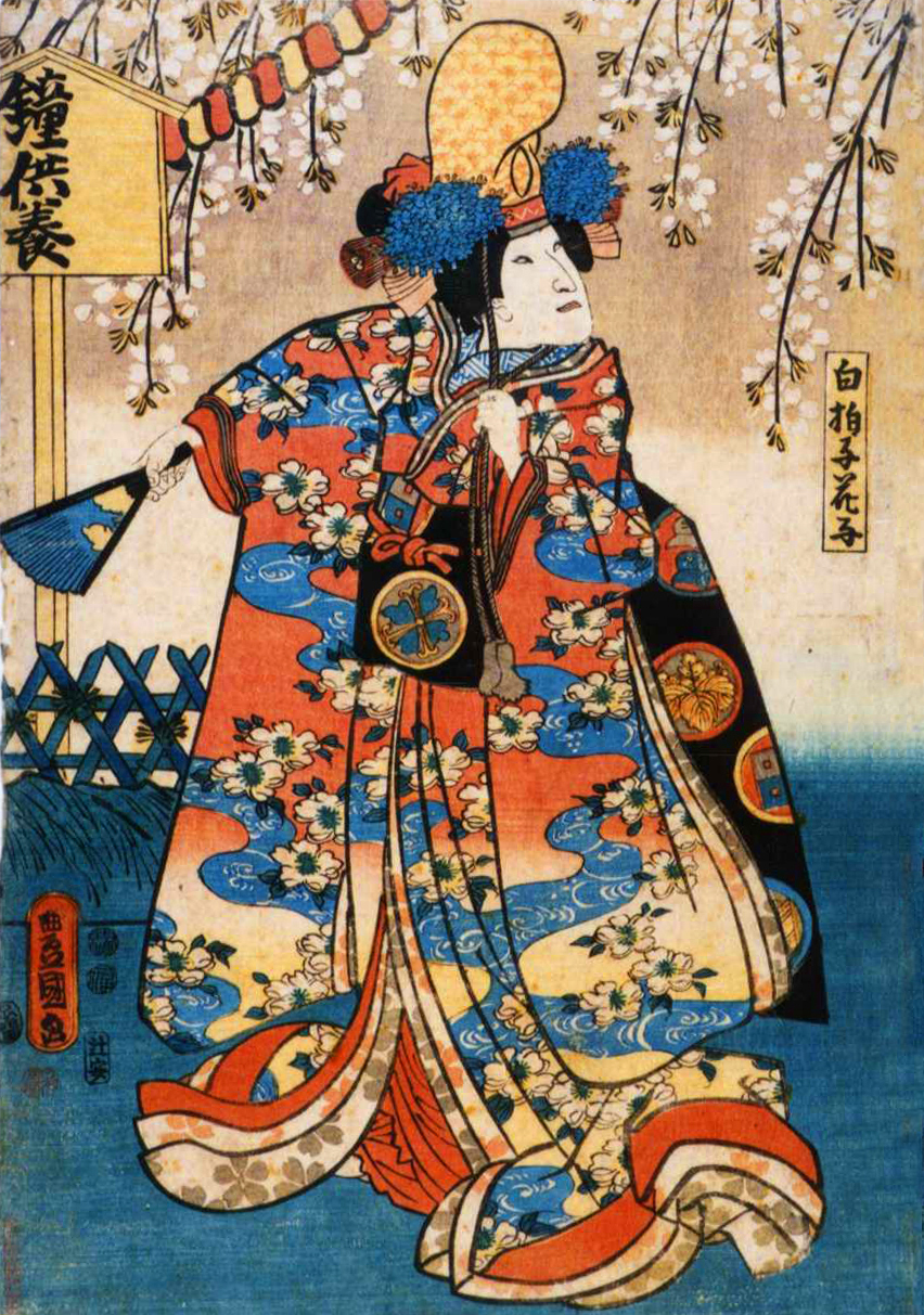 Shūka Bandō I as Shirabyōshi Hanako by Toyokuni Utagawa III, from the April 1852 Edo Ichimura-za production of Kyō-ganoko Musume Dōjō-ji